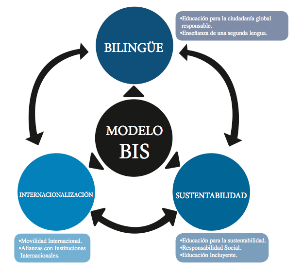 Modelo Educativo BIS